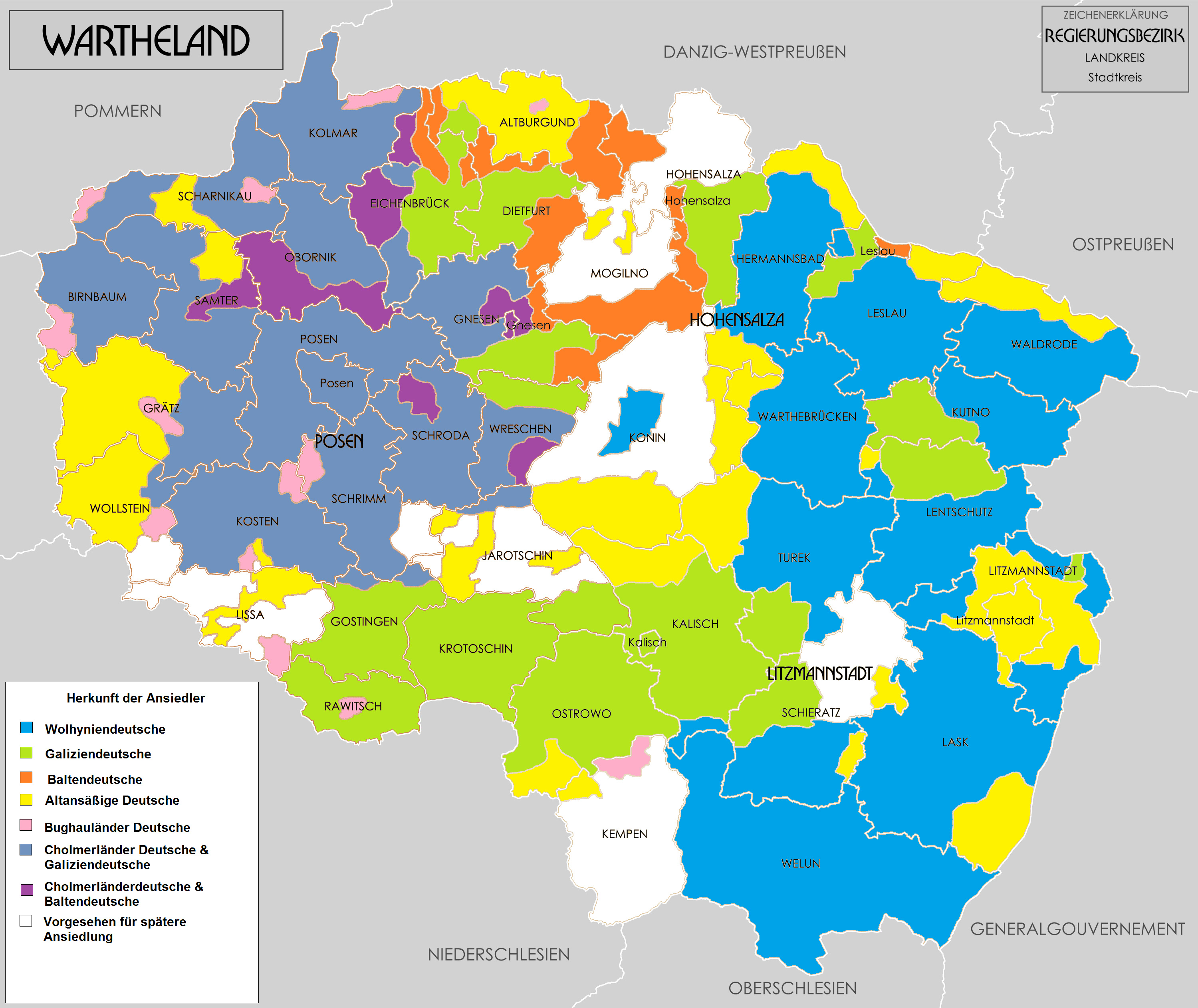 German settlers in the Warthegau (1939-1945), regions of origin (settlement plan).